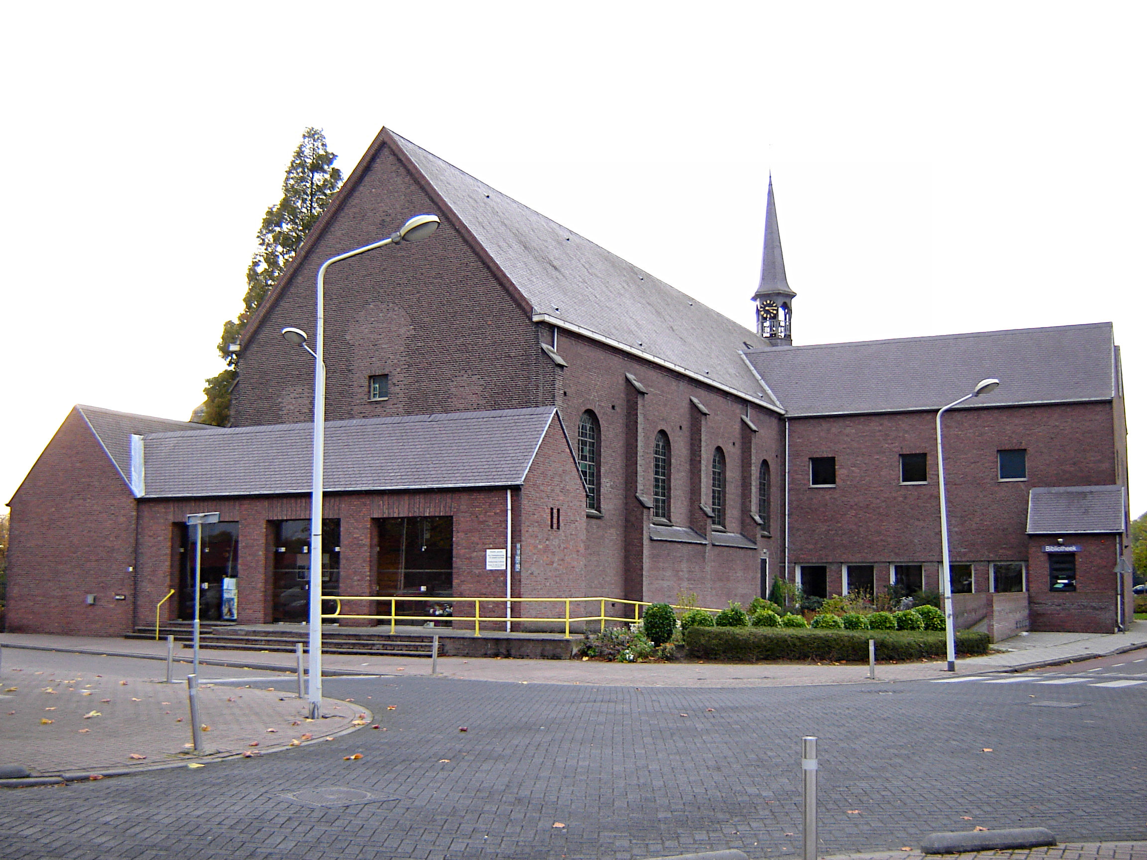 Roman catholic church of Saint Anthony of Padua in Sluiskil. Sluiskil, Terneuzen, Zeeland, the Netherlands